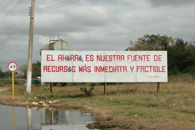 Political posters on Carretera Central, Cuba.